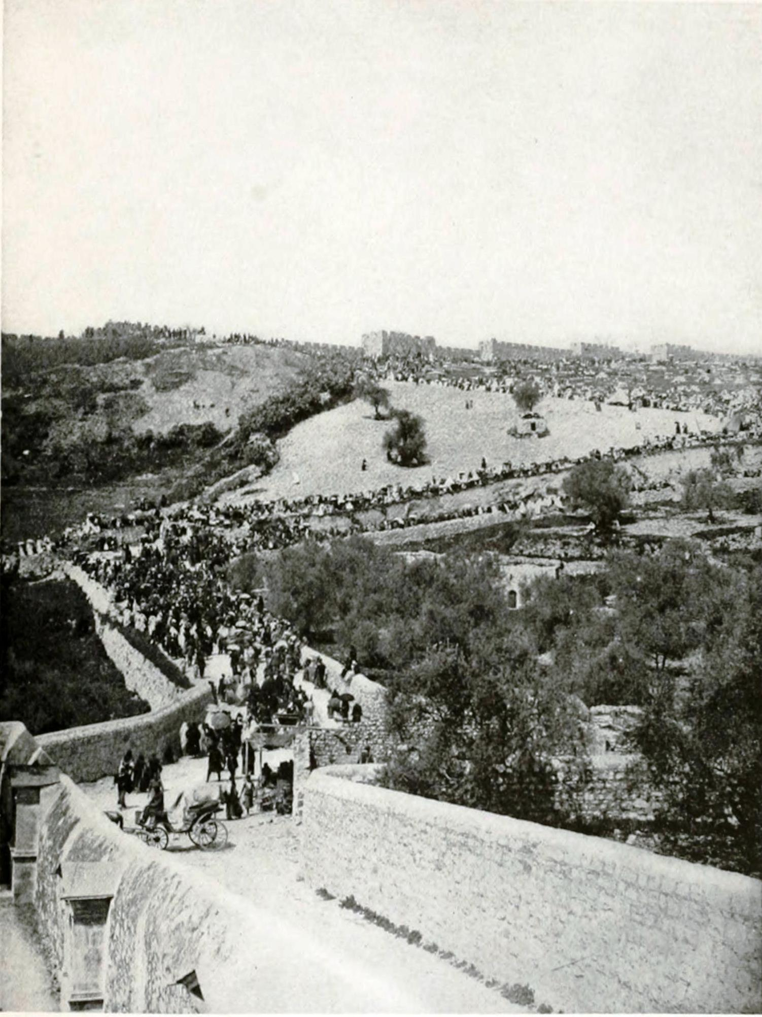 Easter Pilgrims to Jerusalem, view from the east to wast 1910